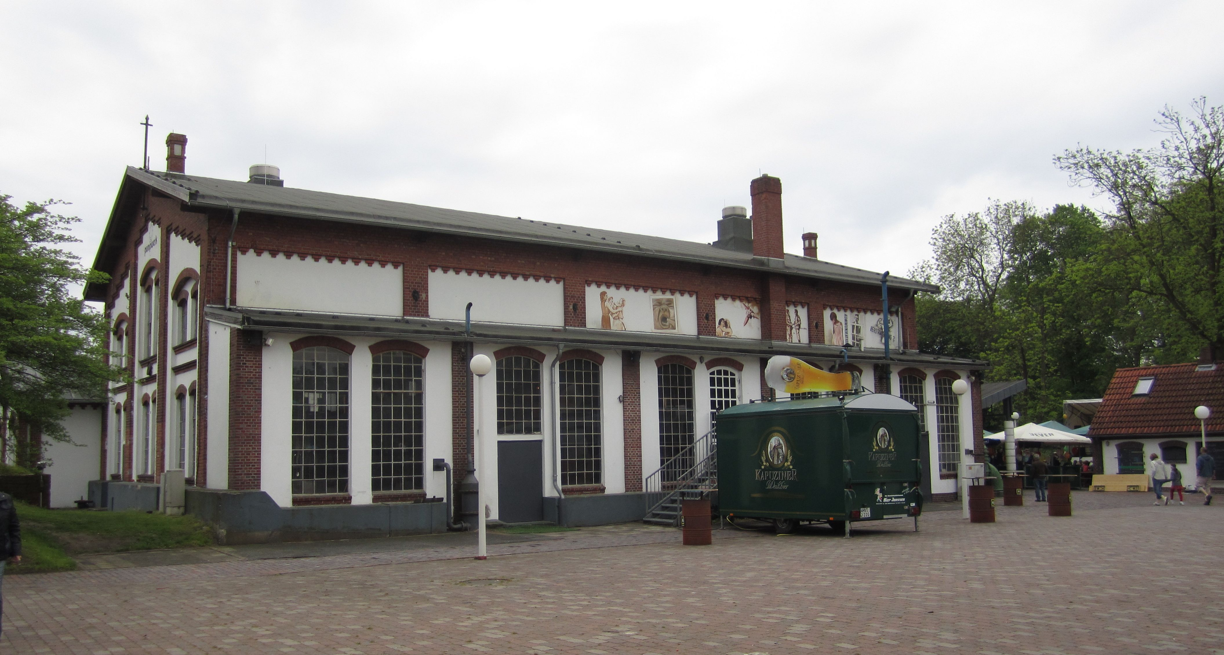 "Pumpwerk" in Wilhelmshaven, Germany.